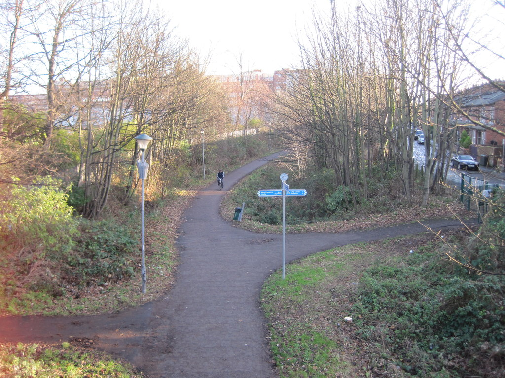 Rowntree Halt railway station (site), YorkshireOpened in 1927 by the London and North Eastern Railway on its Foss Islands branch in York, this Halt served the Rowntree's factory (left) until 1988. View east from Haxby Road bridge. The railway is now a cycleway.